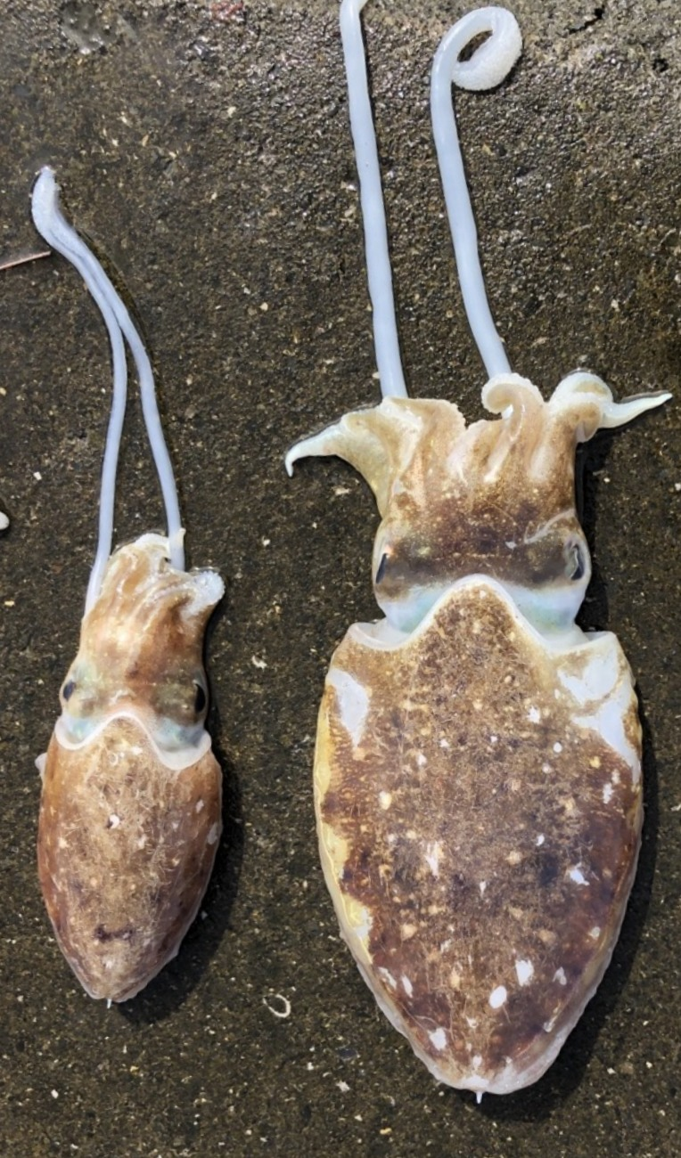 Dorsal view of two individuals of Sepia esculenta. These are caught in Tosa-saga.